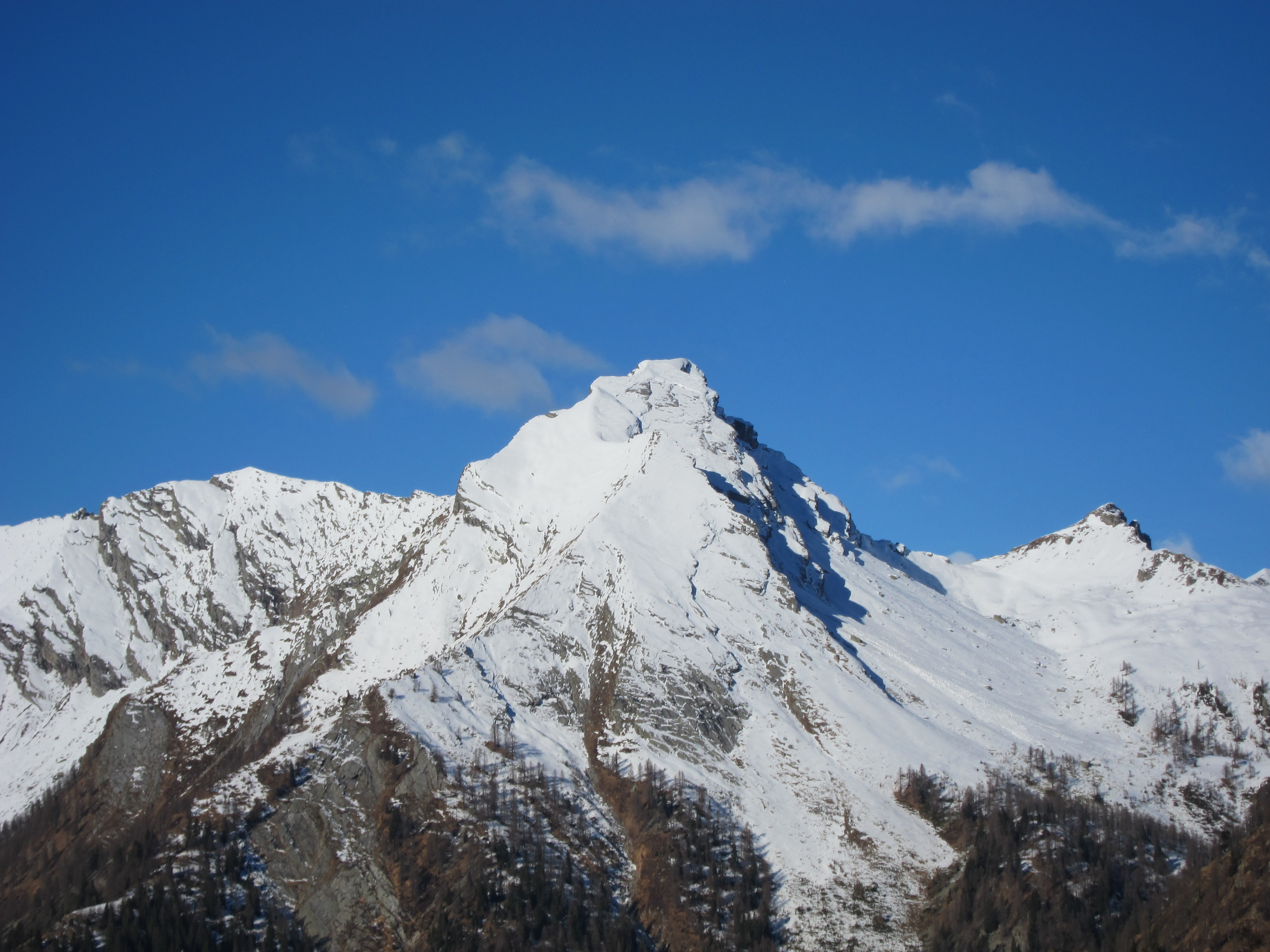 Winter view of the mountain Pioda di Crana in the middle and Pizzo del Corno on the right. The picture is taken from the ski station Piana di Vigezzo in the municipality of Craveggia in the province VCO, in region Piedmont, in Italy. Picture taken on the 31st of december 2018.